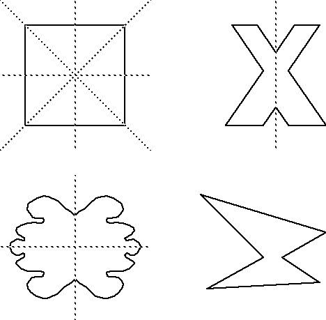 Made June 3rd, 2005, this is a picture of shapes with the axes of symmetry drawn in with dashed lines created using Appleworks for the english Wikipedia article on axes of symmetry.